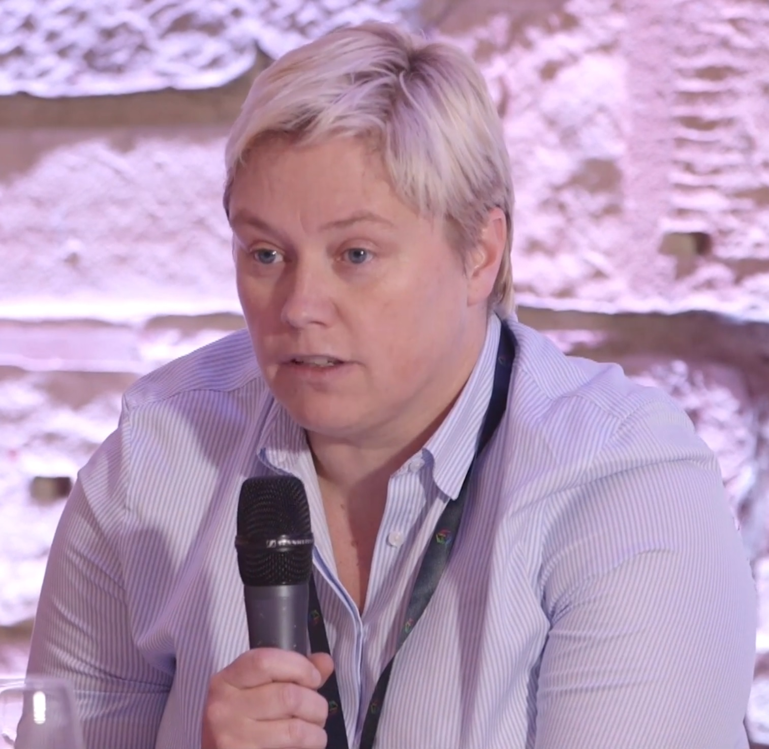 Gillian Docherty, Chief Executive Officer of the Data Lab talks about her work helping public sector and commercial organisations harness the power of data for the greater good. Filmed at the UK Data Service Data Impact 2016 event.